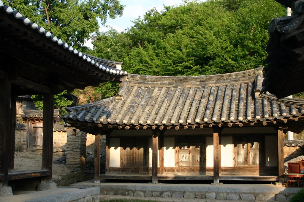 Andong, Gyeongsangbuk-do, South Korea in winter 2007.